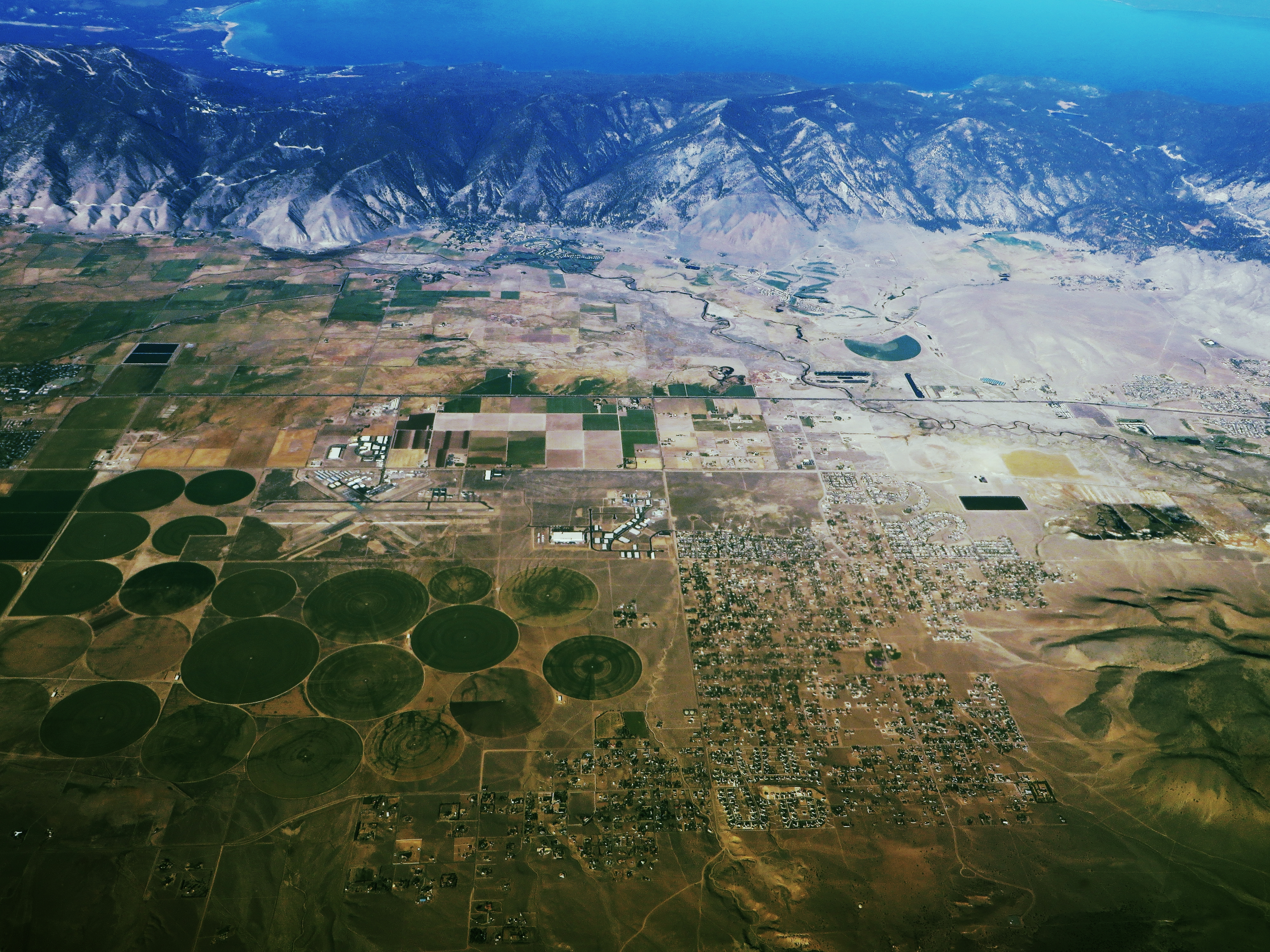 Minden is a census-designated place (CDP) in Douglas County, Nevada, United States. The population was 3,001 at the 2010 census. It is the county seat of Douglas County and is adjacent to the city of Gardnerville. It is named after the town of Minden, in the German state of North Rhine-Westphalia. It has possessed a post office since 1906. US Highway 395 runs through Minden. It is also the terminus of State Route 88, which becomes California State Route 88 on the west side of the state line. The Douglas campus of the Western Nevada College is located in Minden. The Minden area is considered one of the premier locations for soaring in the United States.